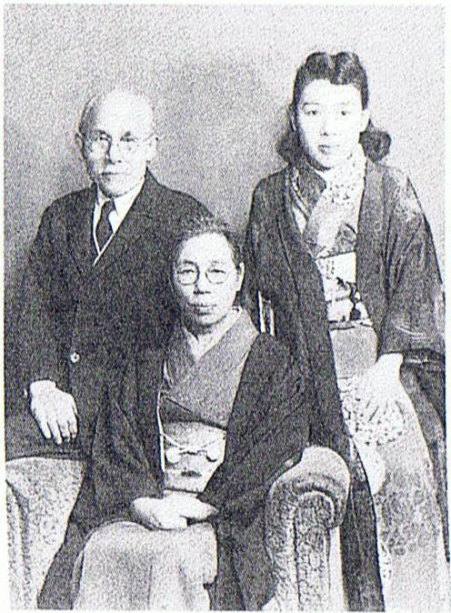 MITANI Tanekiti 1943